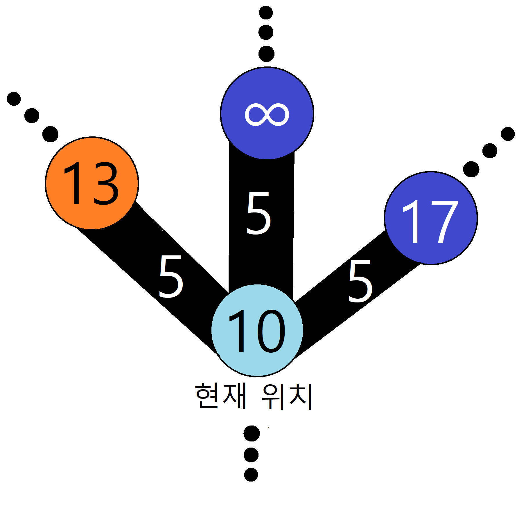 Release condition of dijkstra's algorithm in Korean